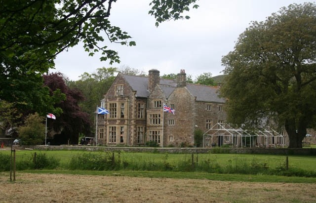 Clennell Hall Part-13th-century hall now used as a hotel